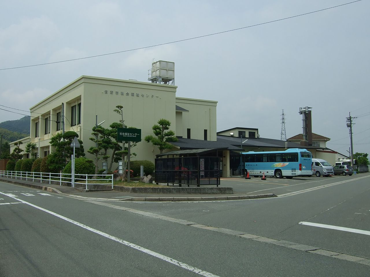 Miyawaka City Social Welfare Center (Tokoroda Spa), Miyawaka City, Fukuoka, Japan